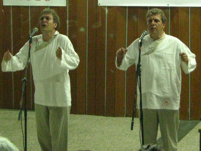 Brothers Radiša and Ratko Teofilovic